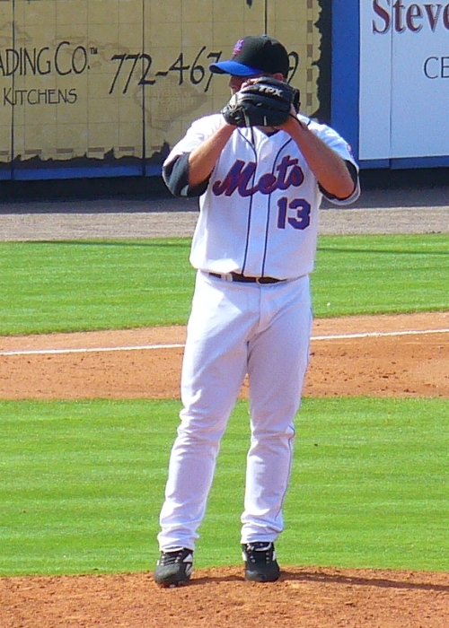 Billy Wagner 03:53, 19 July 2007 . . Metsfan7 . . 500×700 (315,450 bytes)